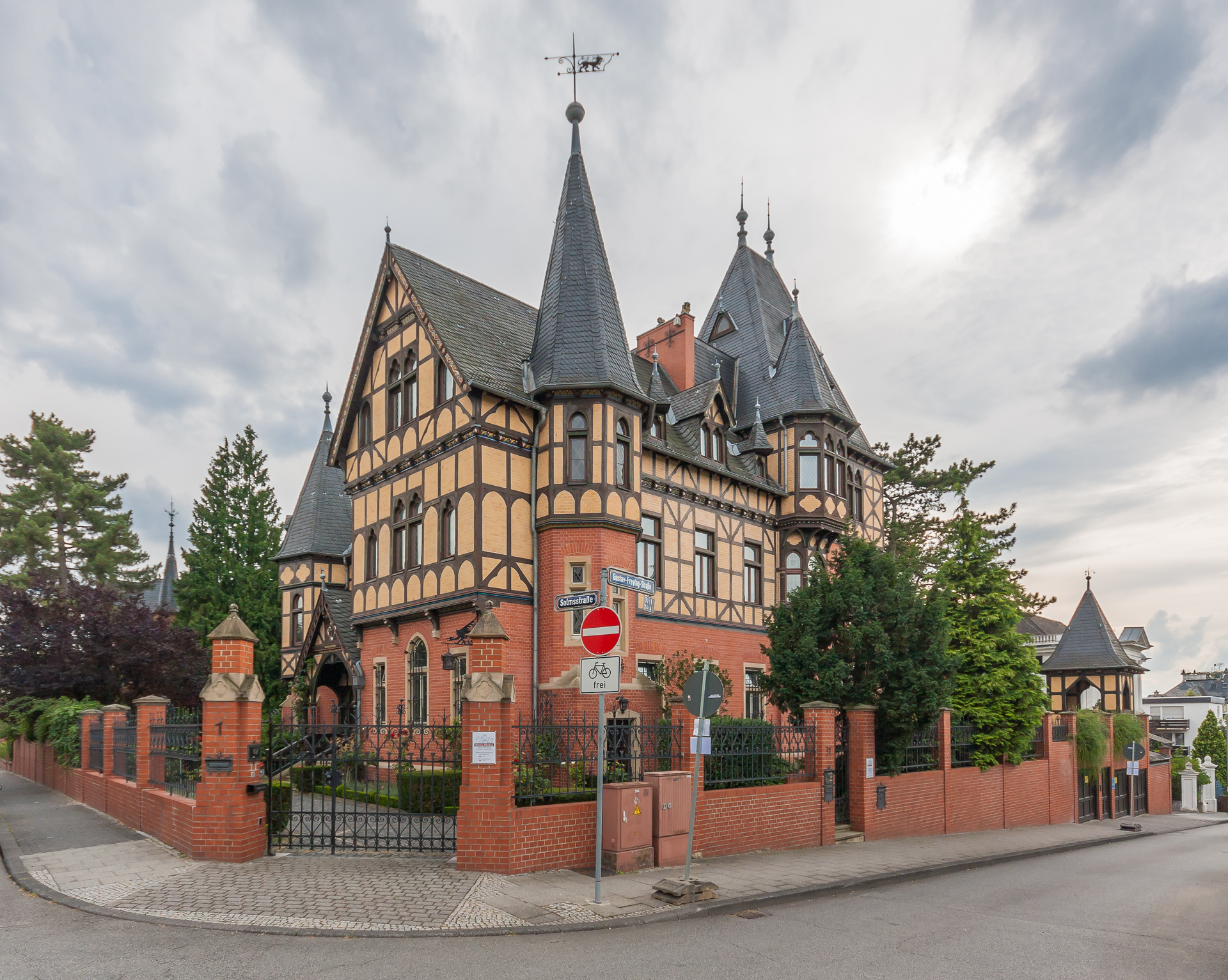 Das 1890 bis 1892 erbaute The "Solmsschlösschen" in Wiesbaden has been built between 1890 and 1892This is a photograph of an architectural monument.